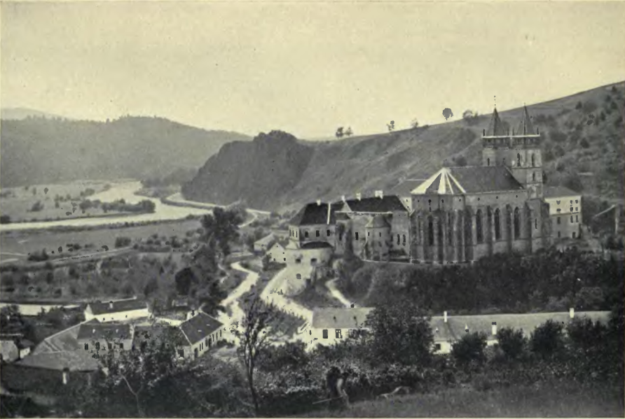 Hron (Garam) valley, Slovakia, Hungarian till the Treaty of Trianon (1920), then Czechoslovakia.